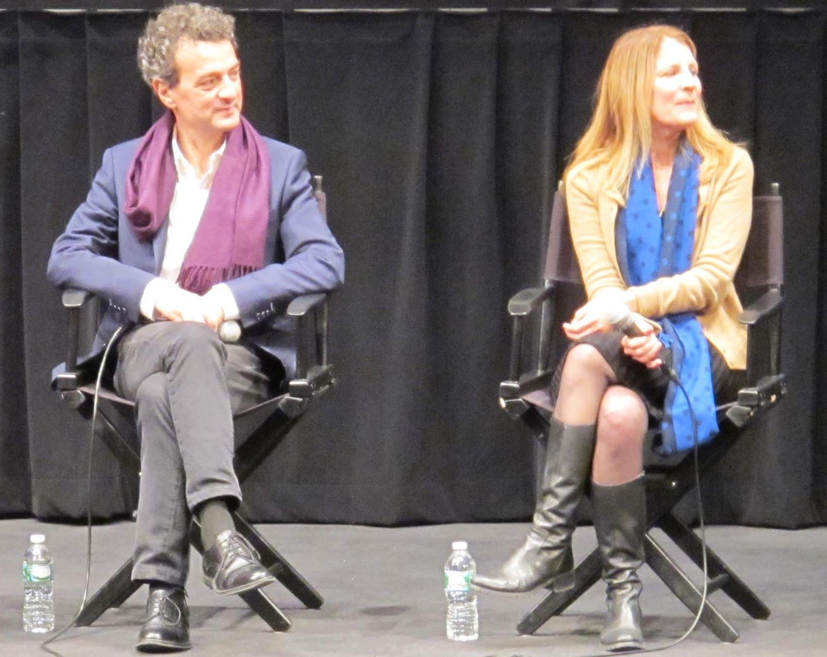 A crop of showing only the two directors, Guido Santi and Tina Mascara